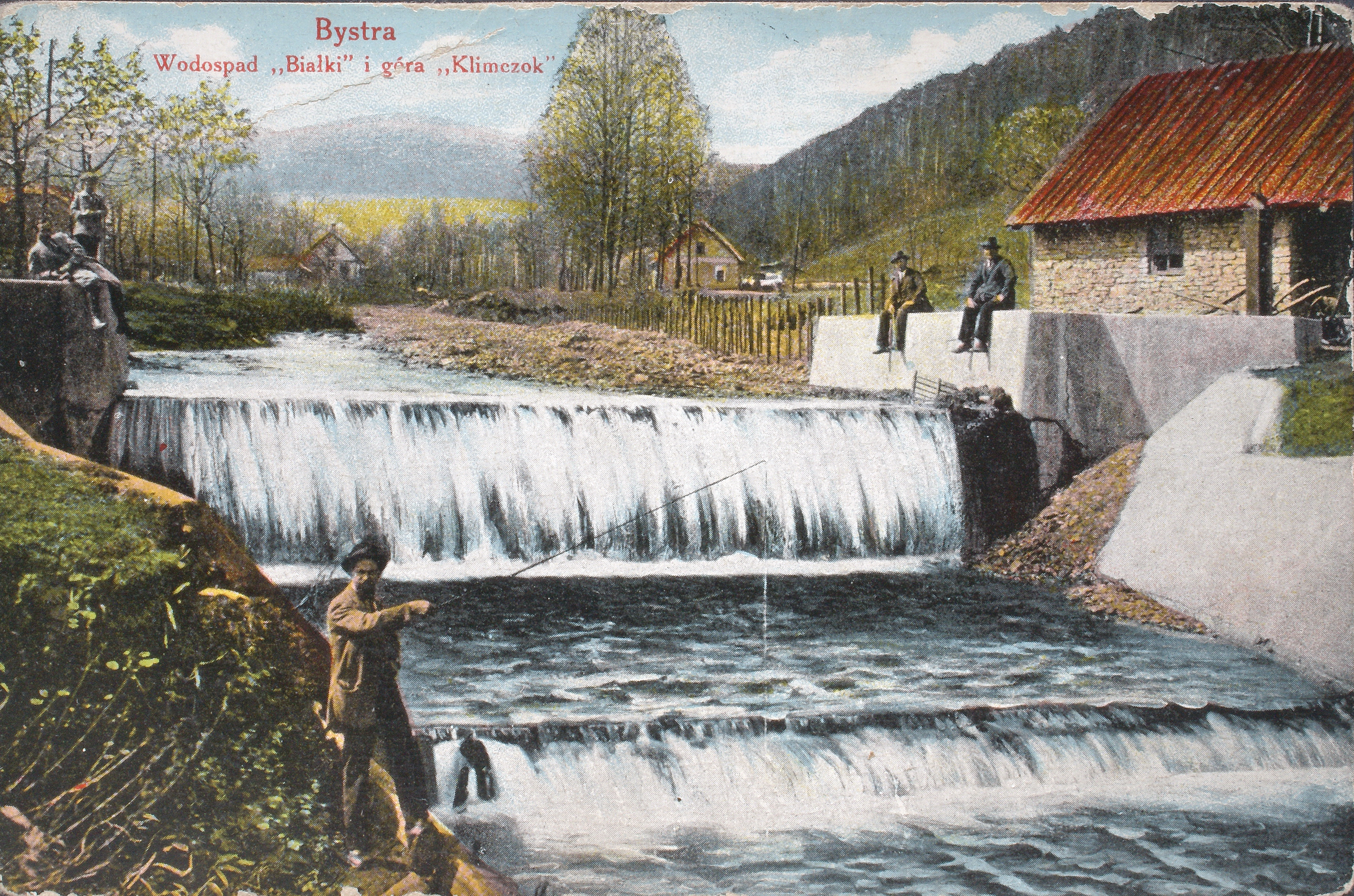 The old postcard from the Bystra, village near Bielsko-Biała, Poland